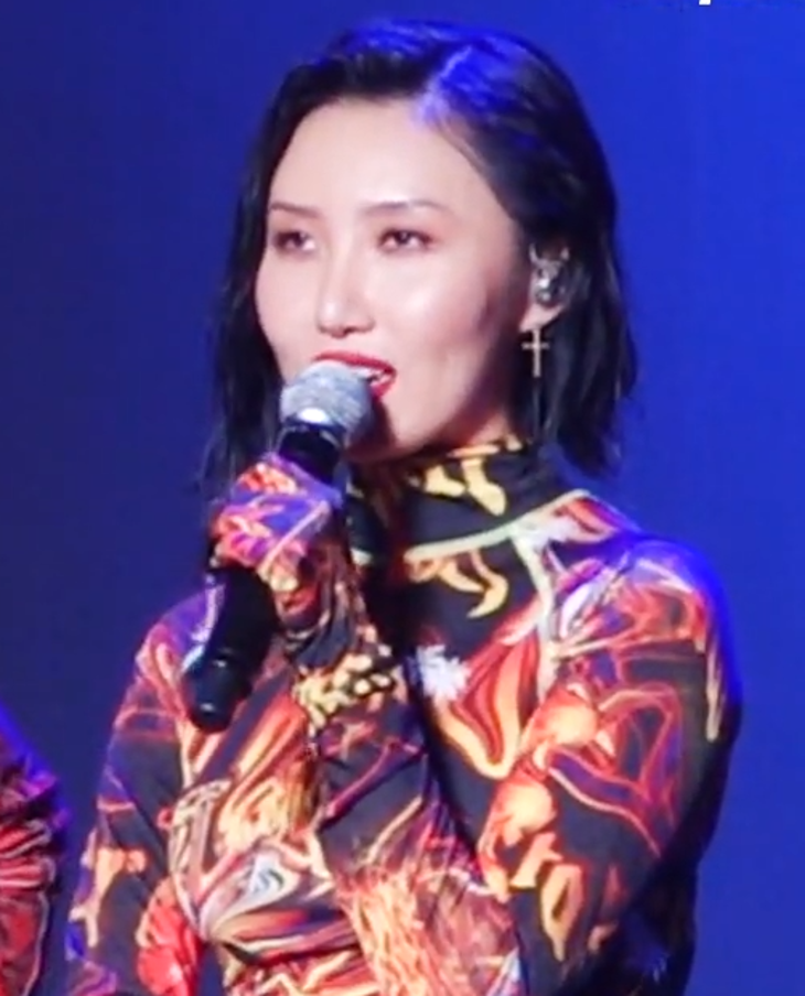 Hwasa at a showcase on November 28, 2019.